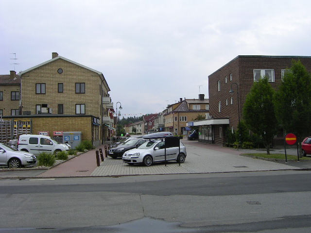 A street in the centre of the town of Vaggeryd